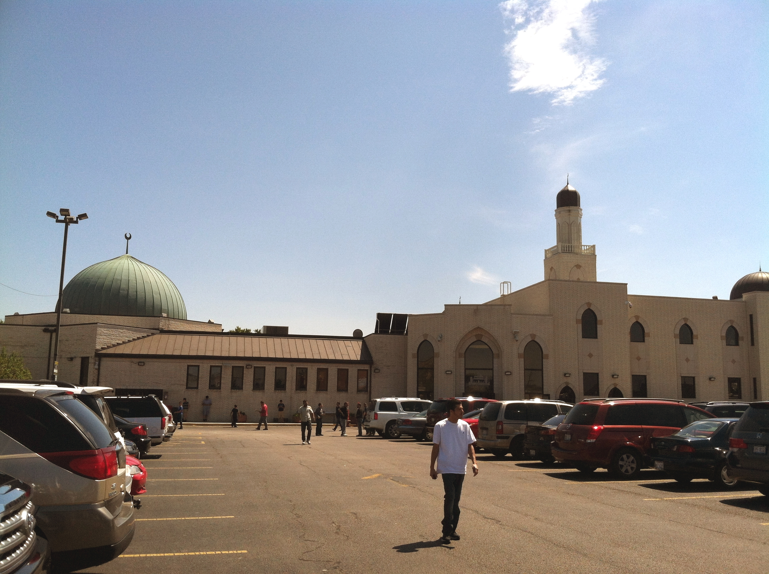 Mosque Foundation in Bridgeview Illinois after Friday Prayer on June 13, 2013